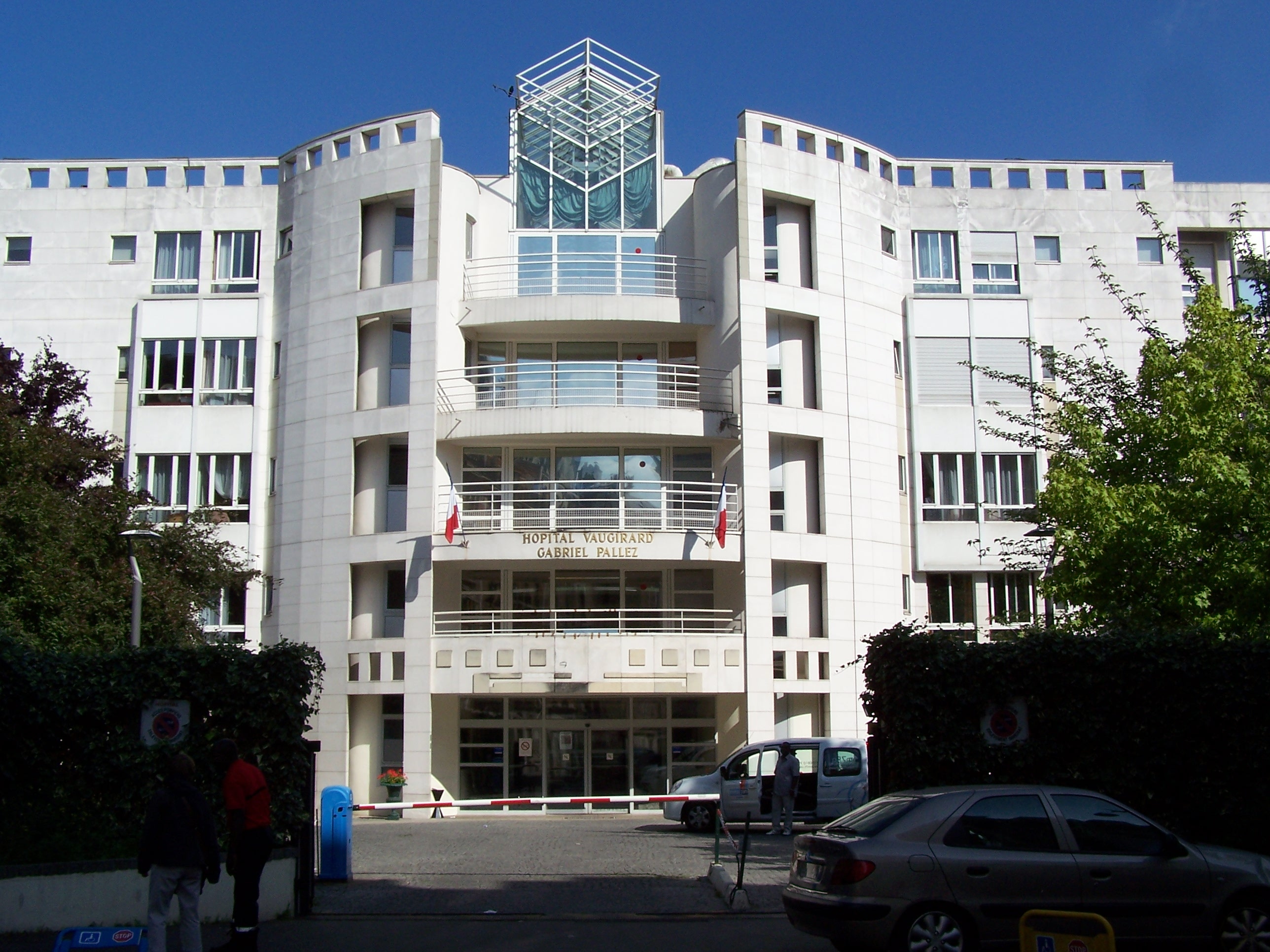 Entrance of the Hôpital Vaugirard Gabriel-Pallez in Paris